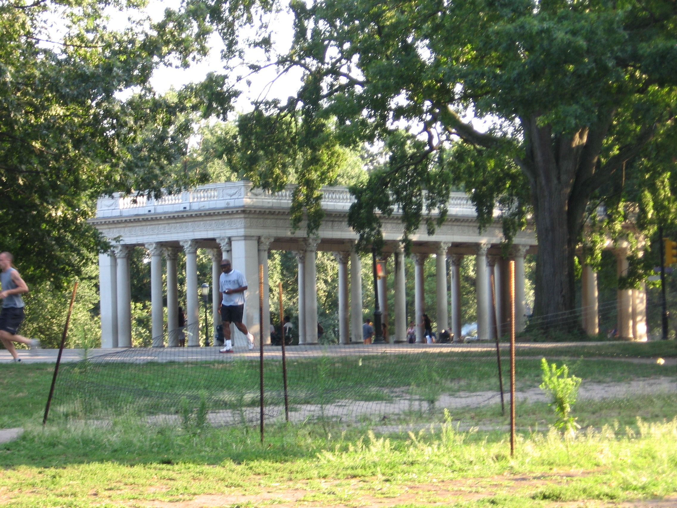 Stanford White's 1904 Peristyle, Prospect Park, Brooklyn. See also File:Grecian Shelter shade jeh.JPG